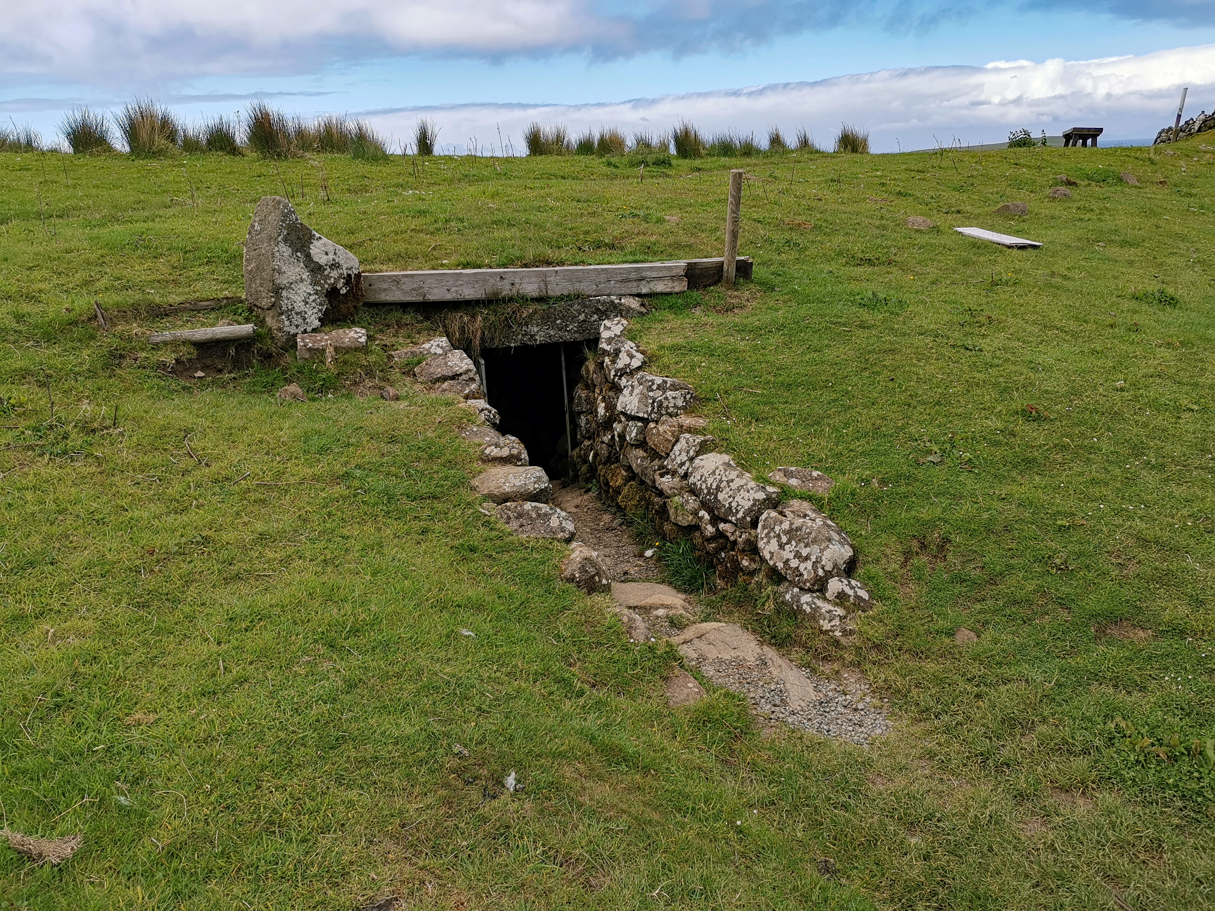 Isle of Skye (Inner Hebrides, Scotland, UK)